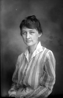 Georgia O'Keeffe during her time at the University of Virginia